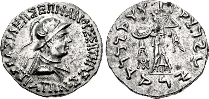 Strato I helmetted